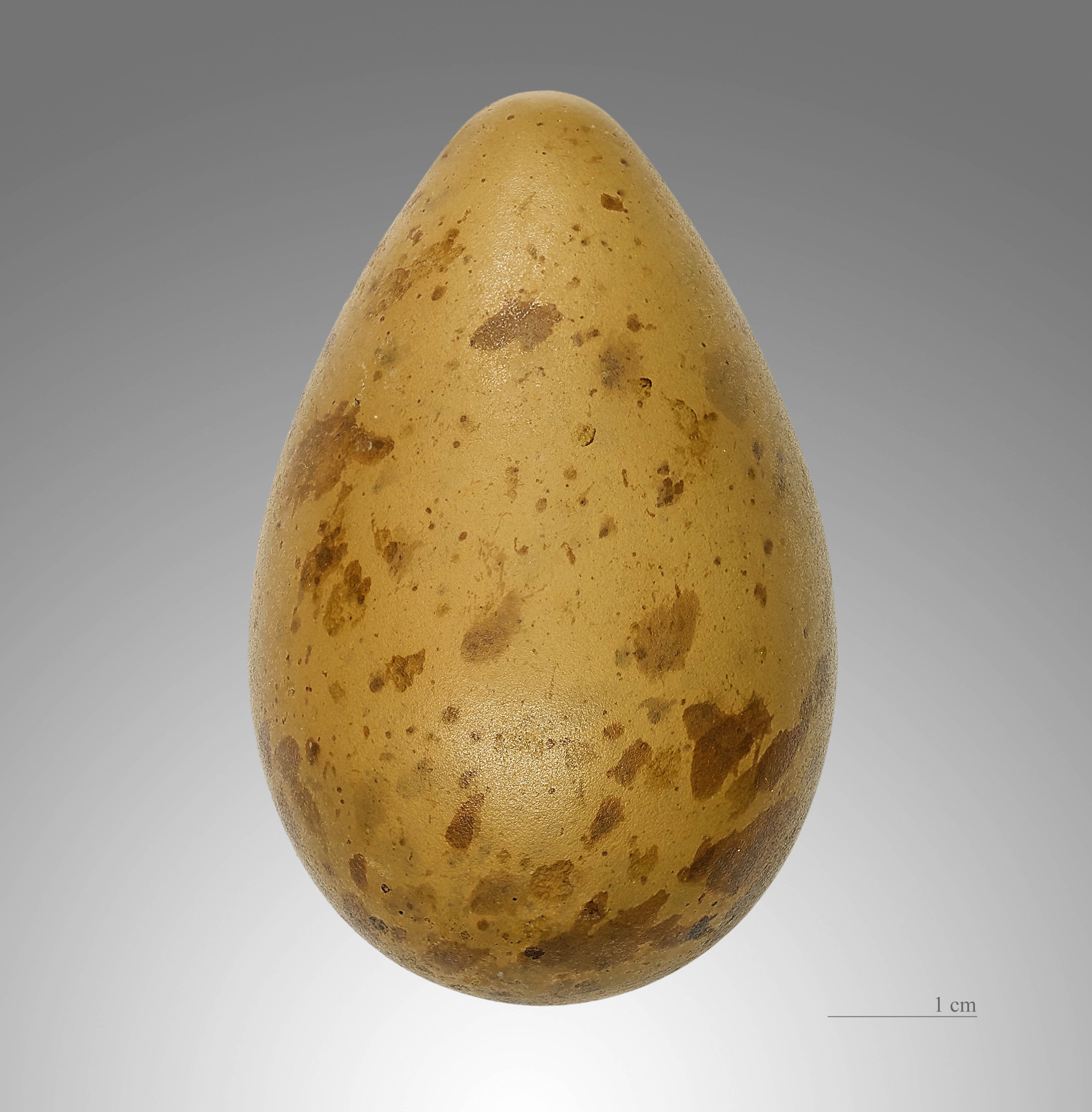 Egg of Bar-tailed Godwit. Collection of Jacques Perrin de Brichambaut.